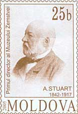 Stamp of Moldova